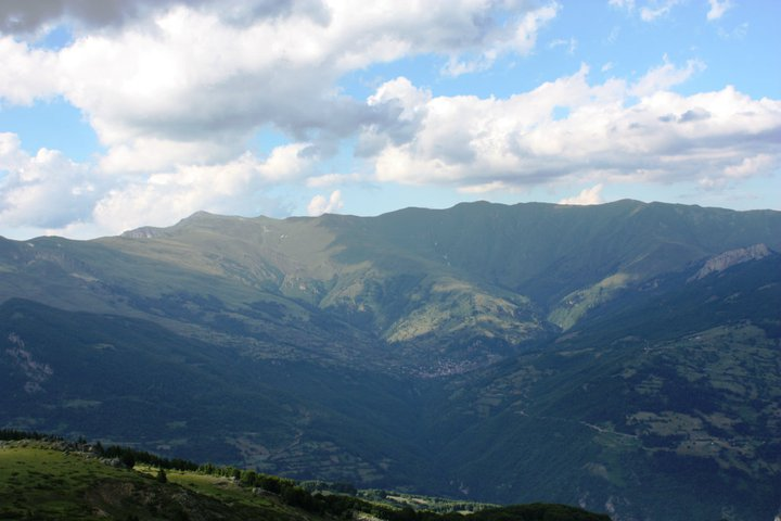 Vejce Vilage in the region of highland of Sharra -Tetovo Rep.Of Macedonia